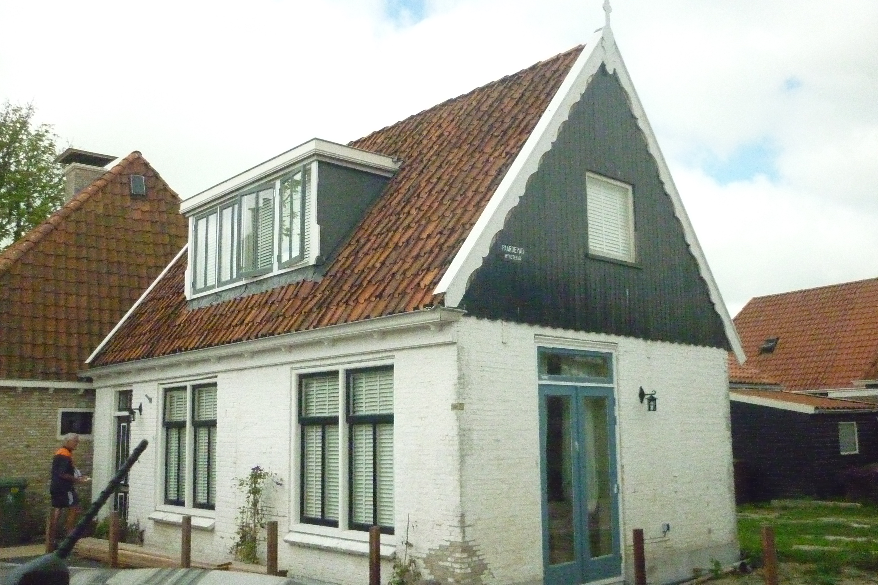 Hous of Peter Tazelaar in Hindeloopen